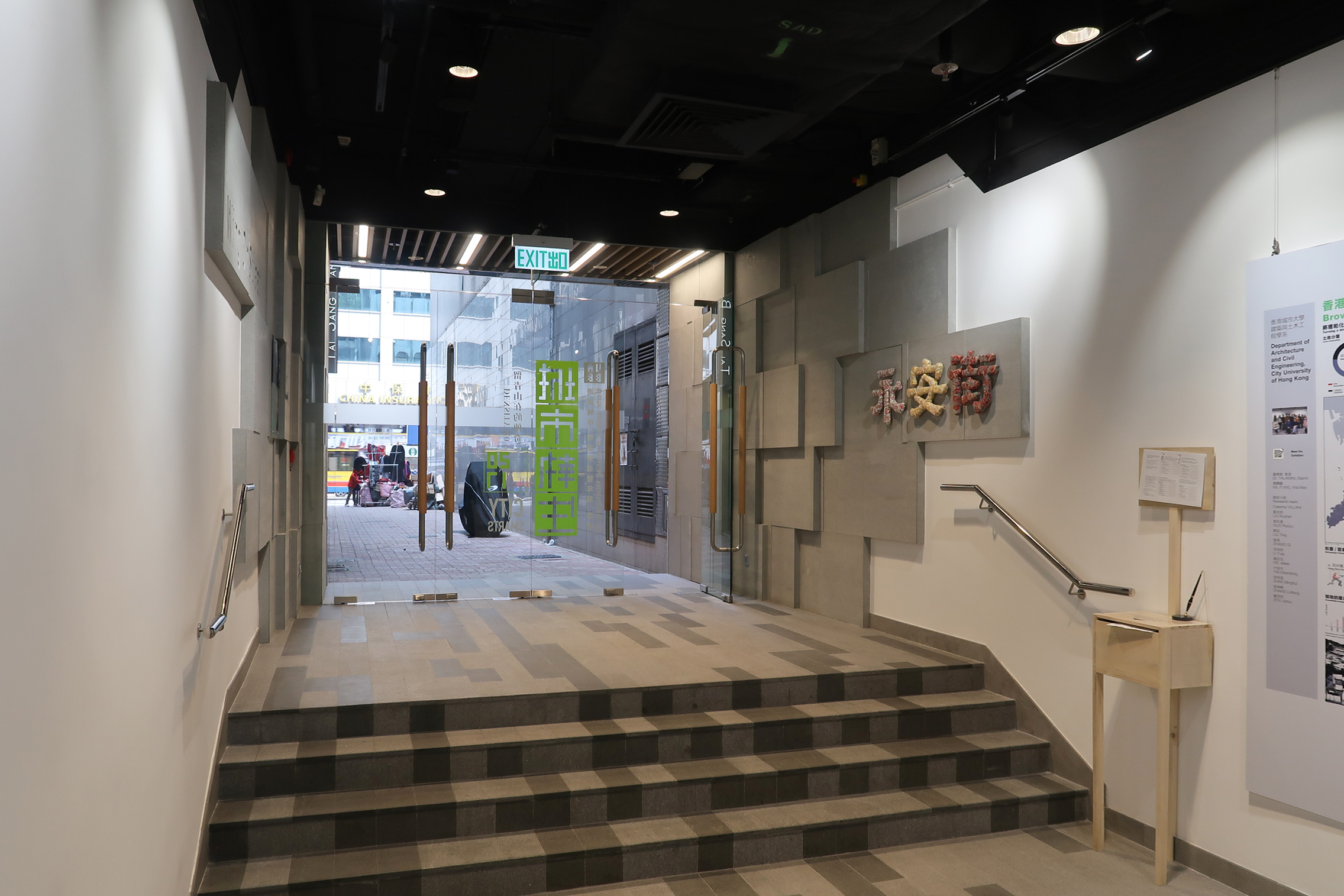 Wing On Street exit in H6 CONET